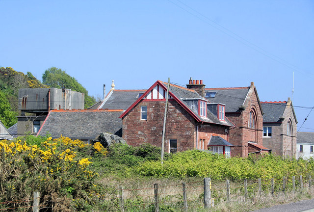 Marine Biological Station, Millport At the forefront of Marine Biology.This establishment has a Museum and fishtanks displaying species caught in The Firth of Clyde.